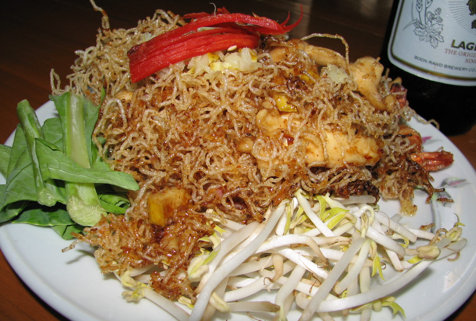 A plate of Mee Krob (หมี่กรอบ, a savory and crispy Thai rice vermicelli dish). This dish costs just 60 baht at โชติจิตร (Chotechitr), ถนนตะนาว เขตพระนคร พื้นที่ ถนนตะนาว จังหวัดกรุงเทพฯ (146 Phraeng Phuton, Bangkok, Thailand), 02-221-4082. Photo taken in Bangkok, Thailand